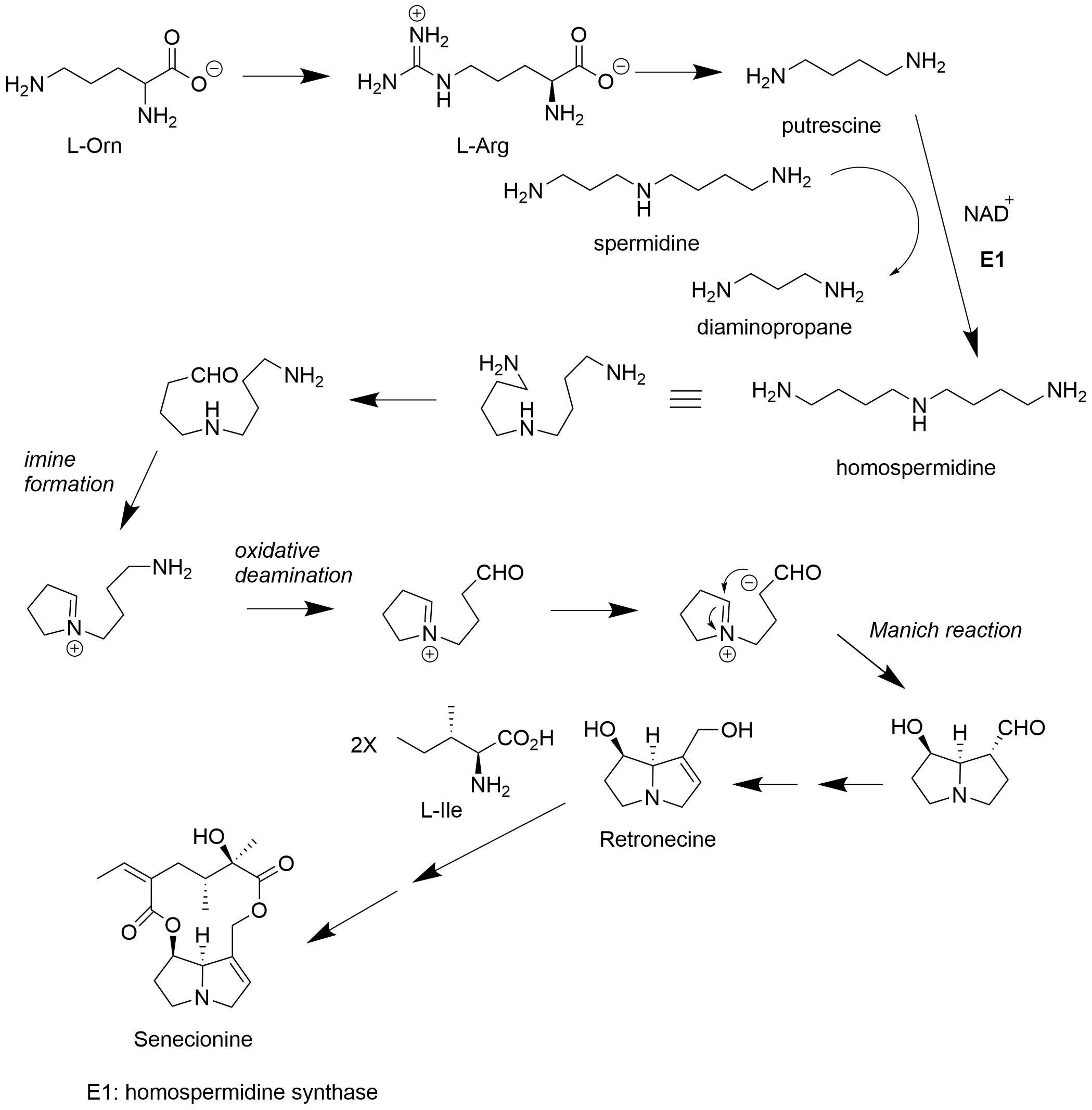 biosynthesis of senecionine